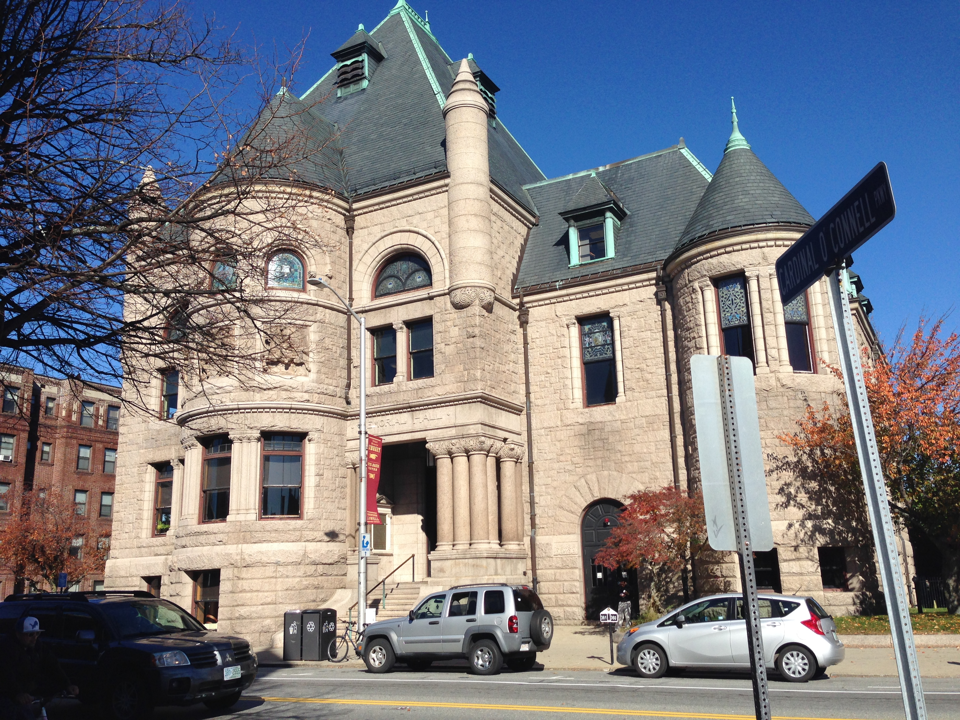 Full view of the south entrance to Pollard Memorial Library.